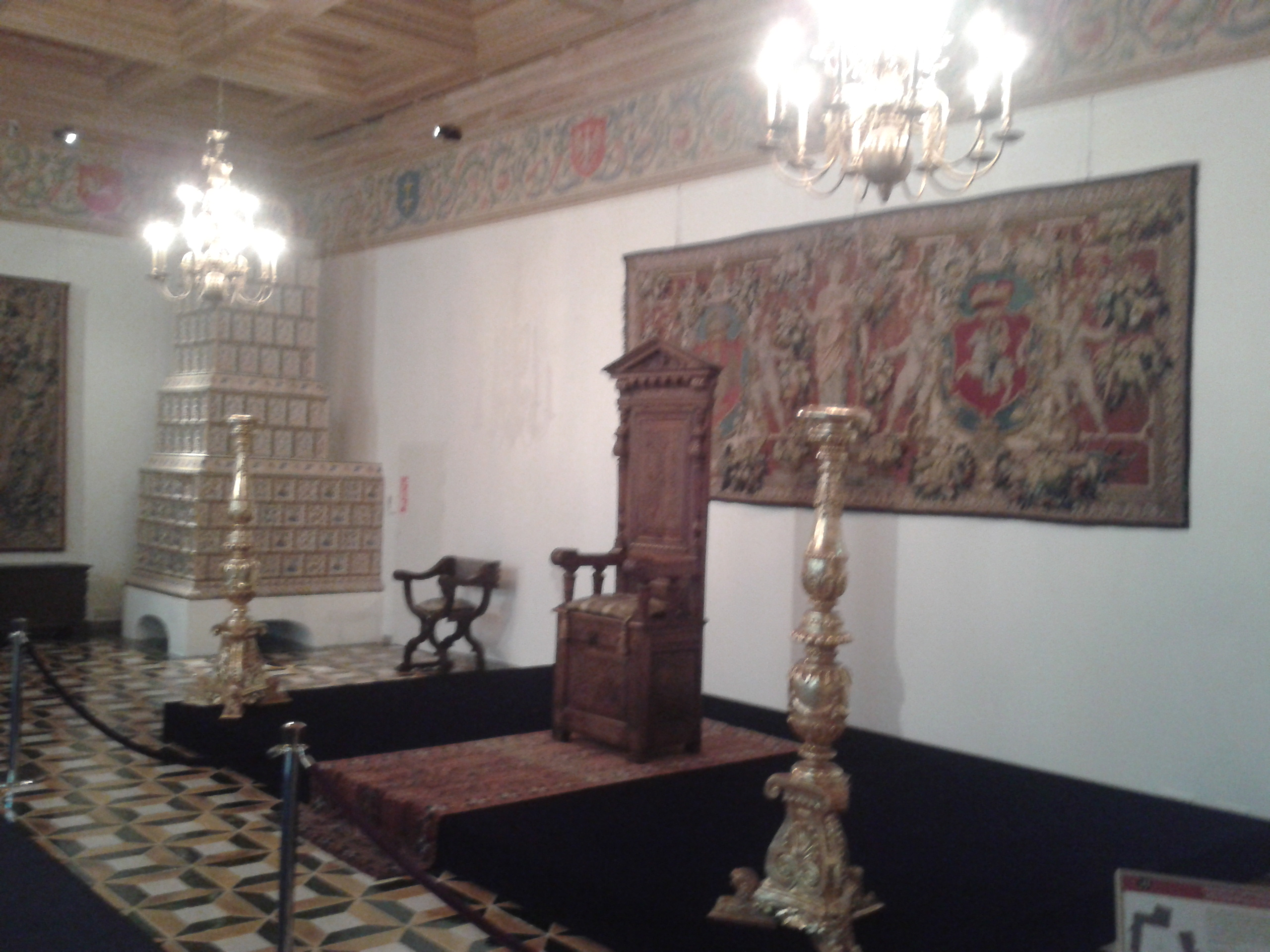 Inside Palace of the Grand Dukes of Lithuania.